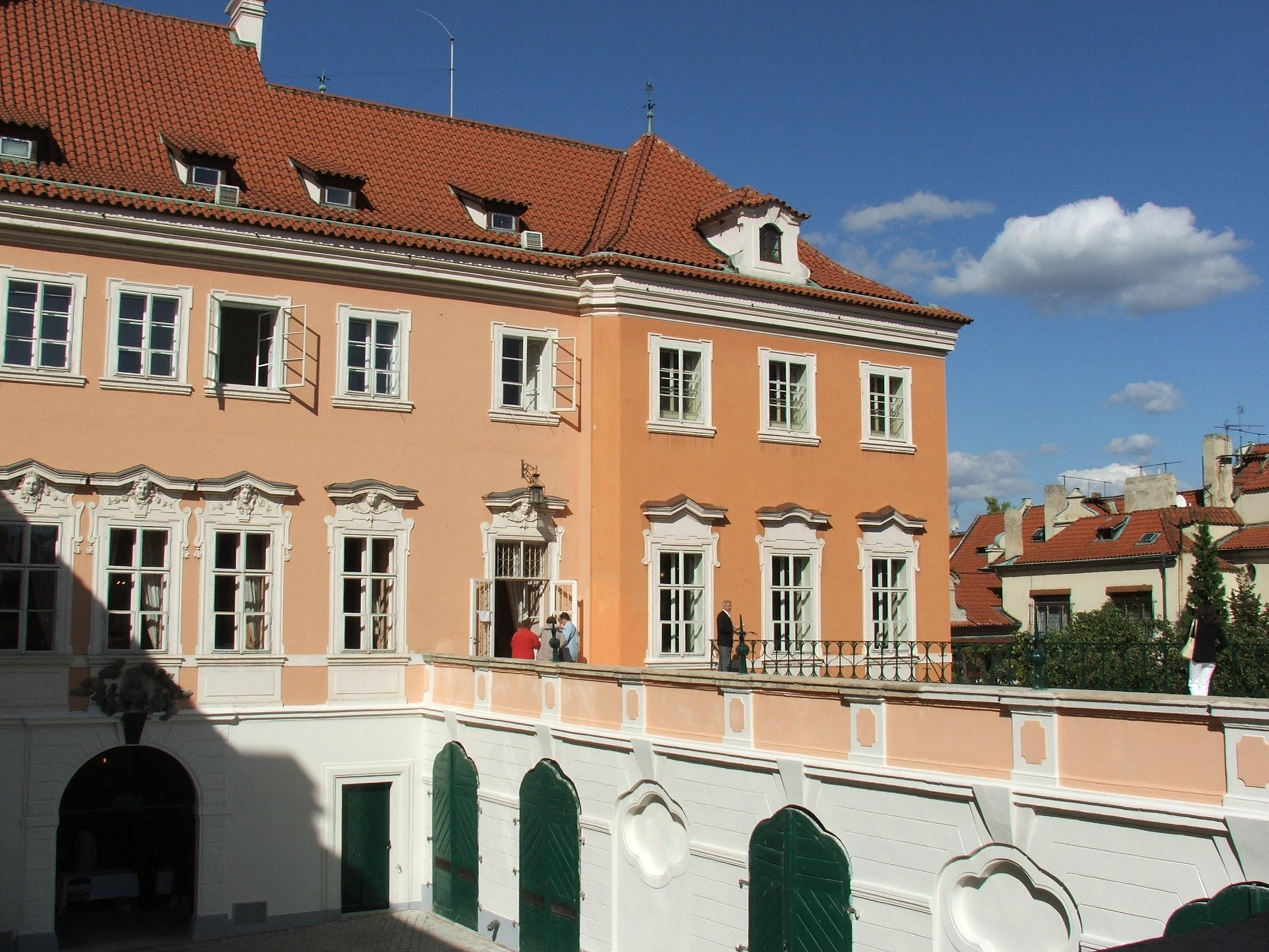 Buquoy Palace in Prague, Malá Strana, Embassy of France. Inner court of embassy. Picture taken during open door day.